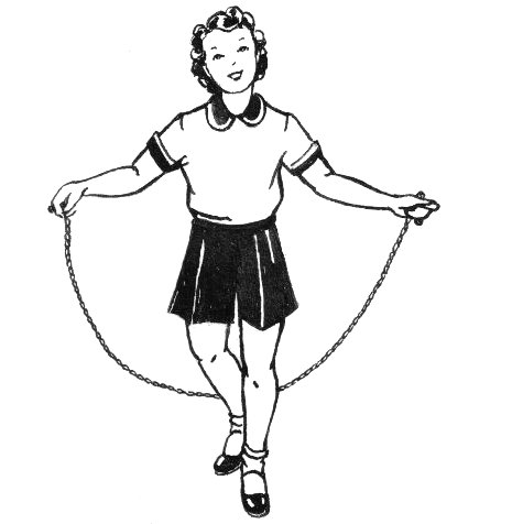 line art drawing